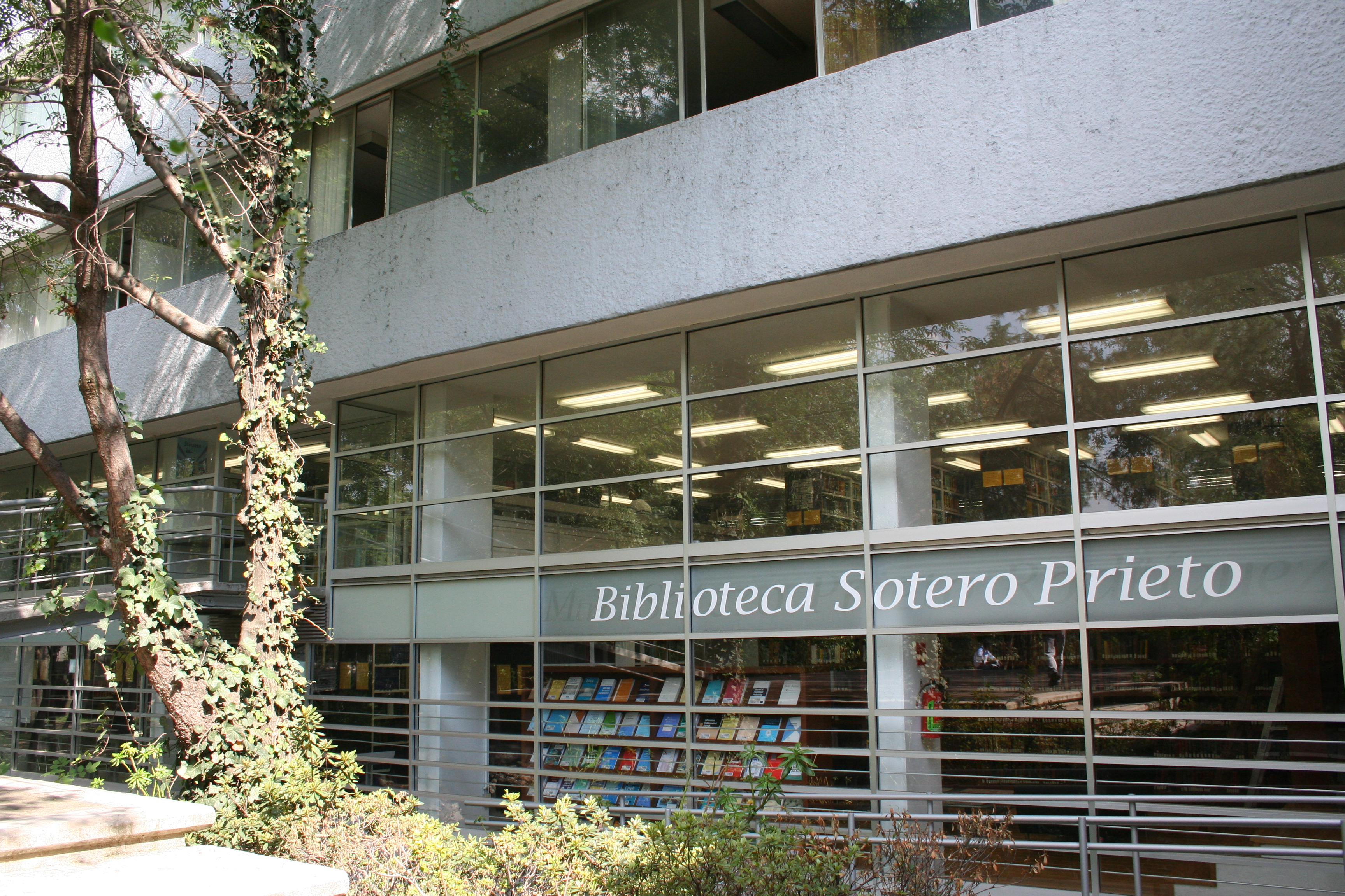 Library Sotero Prieto